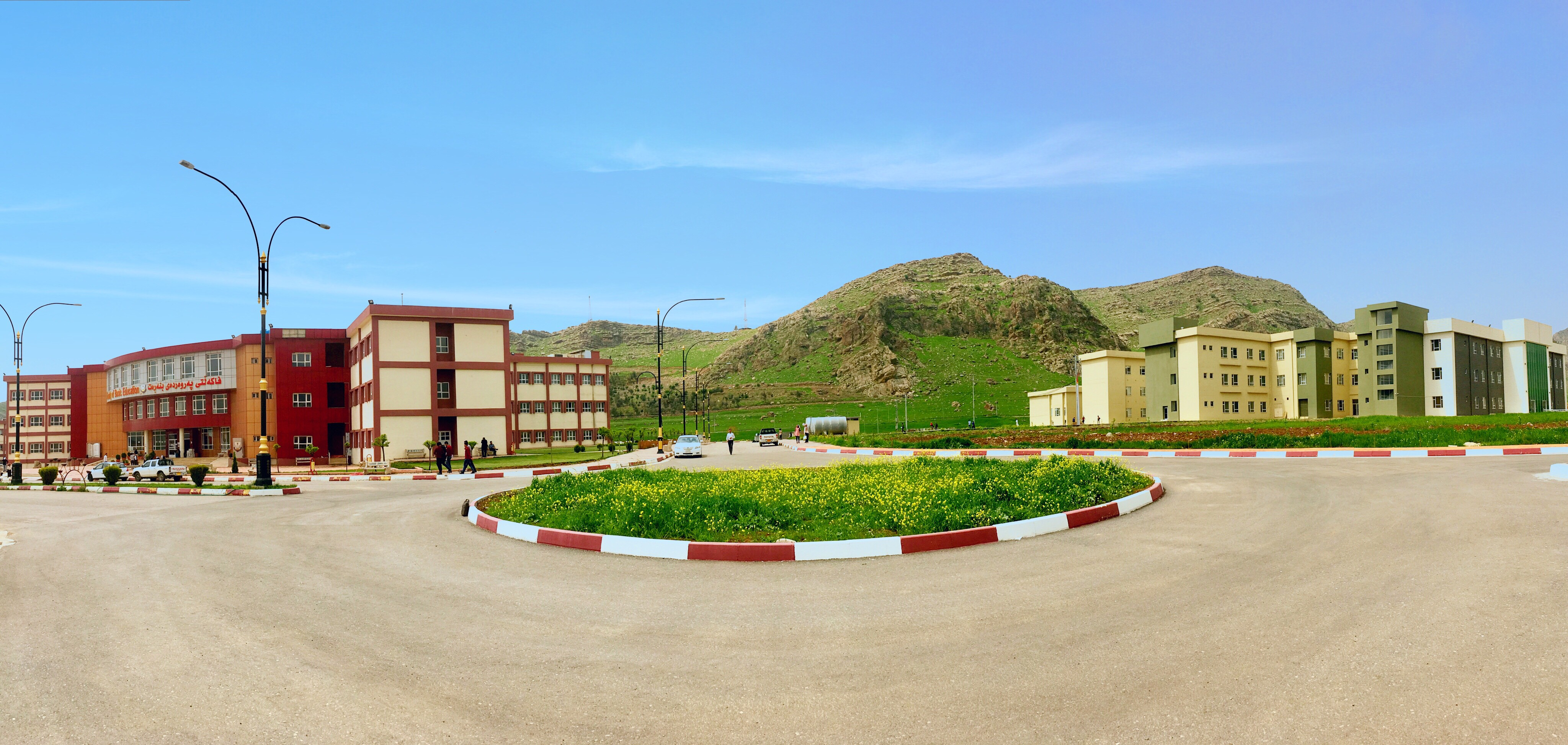 The University of Raparin is a public university in Ranya, in the Sulaymaniyah Governorate of the Kurdistan Region of Iraq. It was established in 2010. The main campus of the Raparin University is located in Rania District, and the second campus is located in Qaladiza District.